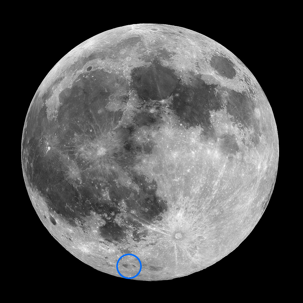 Full moon taken with SCT C9.25 and Toucam. Mosaic made of 24 single images.